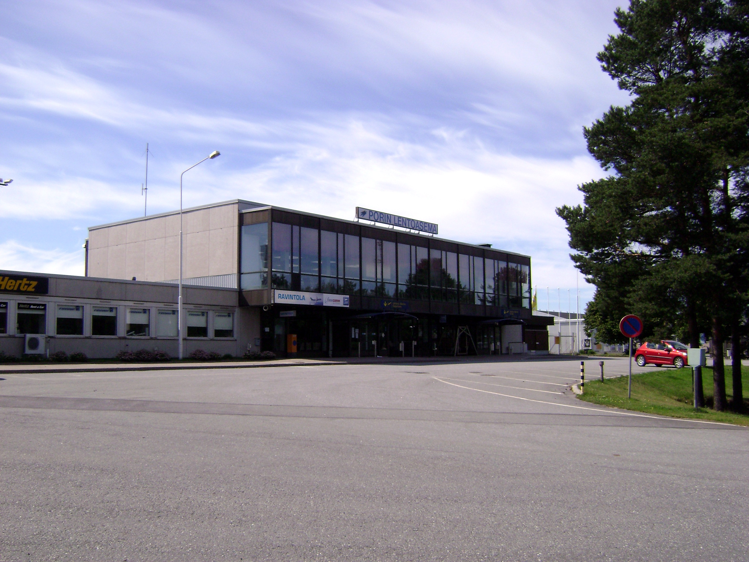 Pori Airport terminal building.